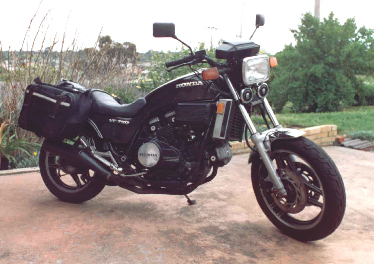 Honda 1982 VF750 Sabre - Albany Western Australia